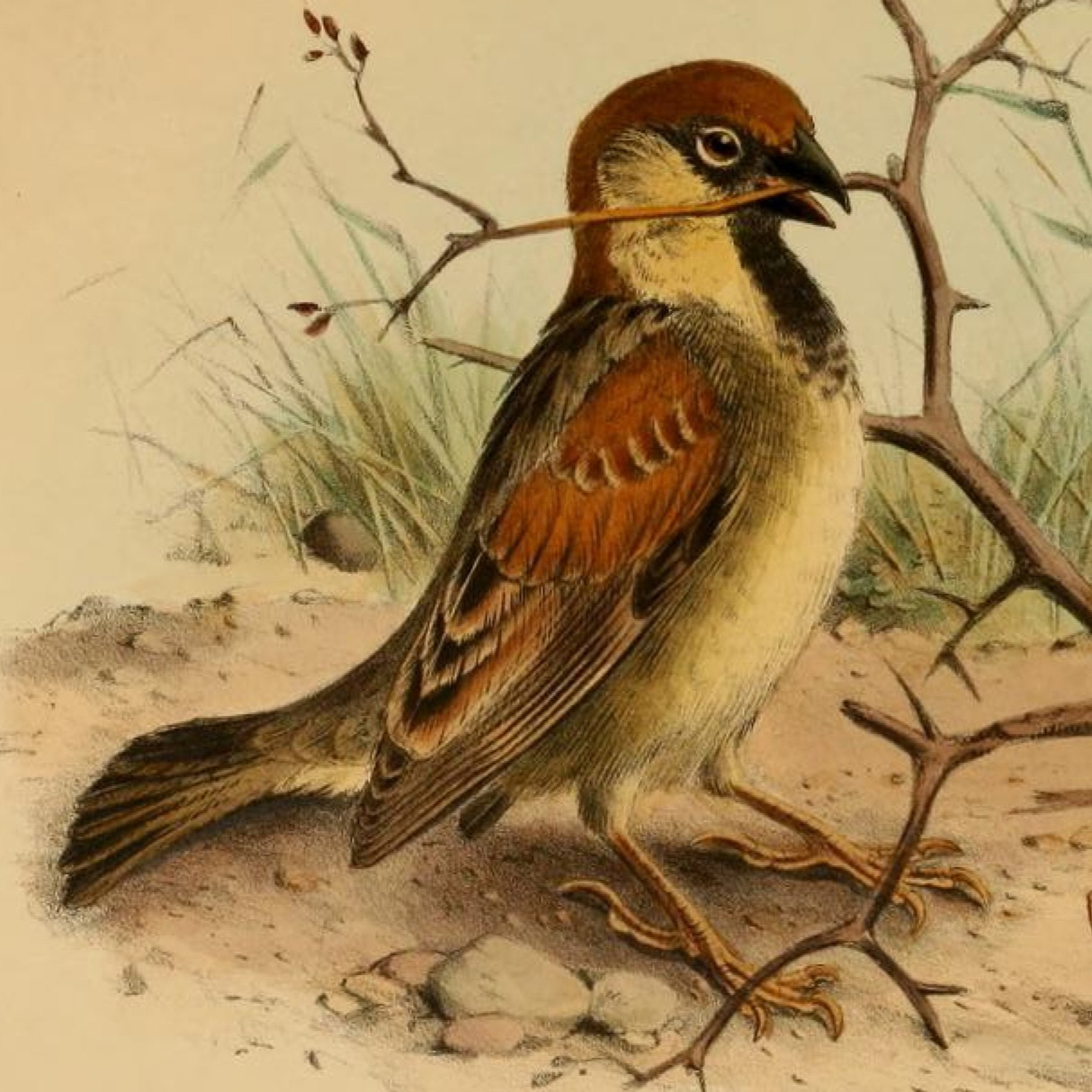 A detail of an illustration by Henrik Grönvold showing a Somali Sparrow, from G. E. Shelley's Birds of Africa